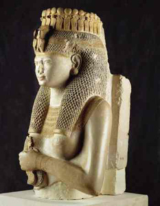 Princess Meritamen, "the White Queen". This statue was discovered in 1896 in a chapel north-west of the Ramesseum in Thebes.